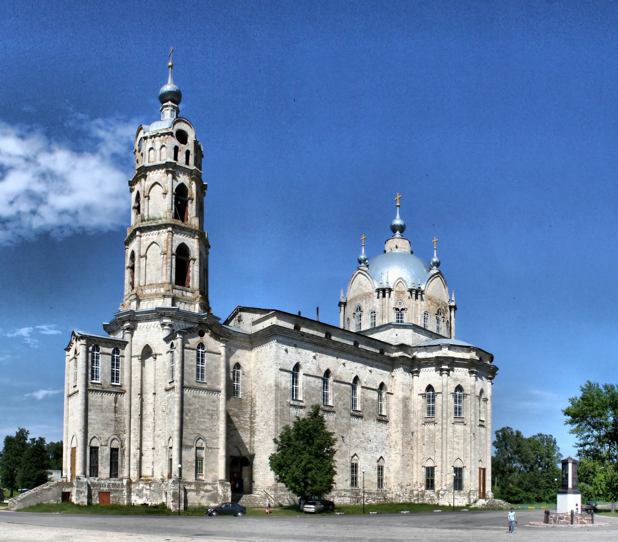 Gus-Zhelezny, Ryazan Oblast, Russia, 391320